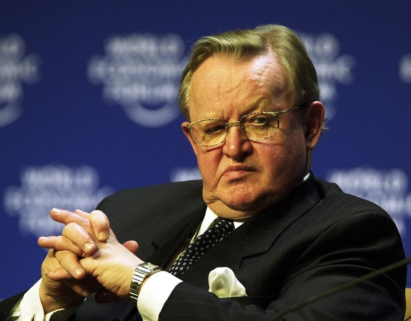 Martti Ahtisaari, the (then) President of Finland, during a session at the Annual Meeting 2000 of the World Economic Forum in Davos, Switzerland.